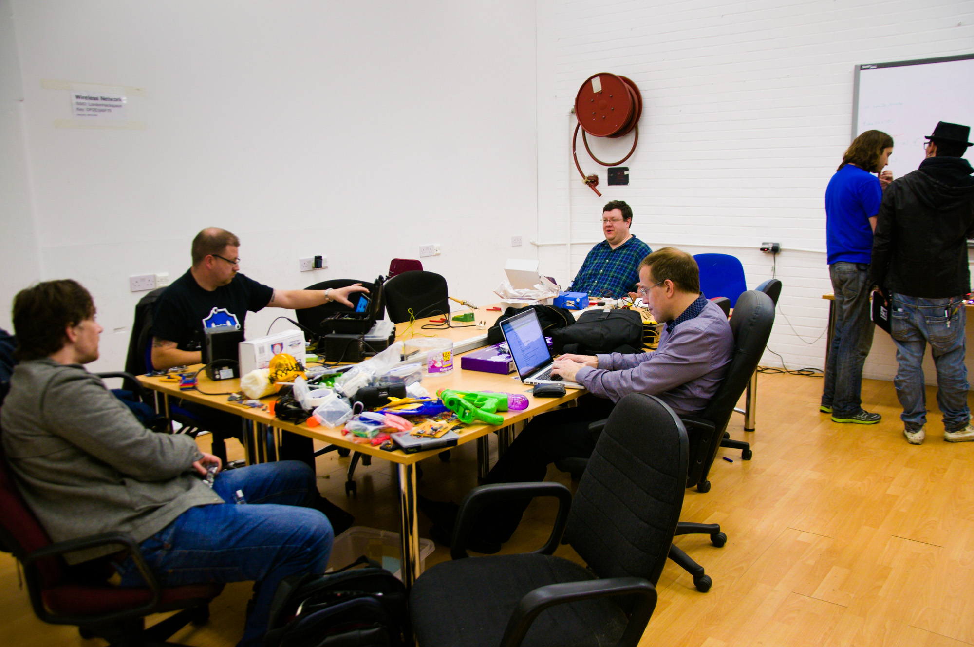 Solder workshop at London Hackspace.